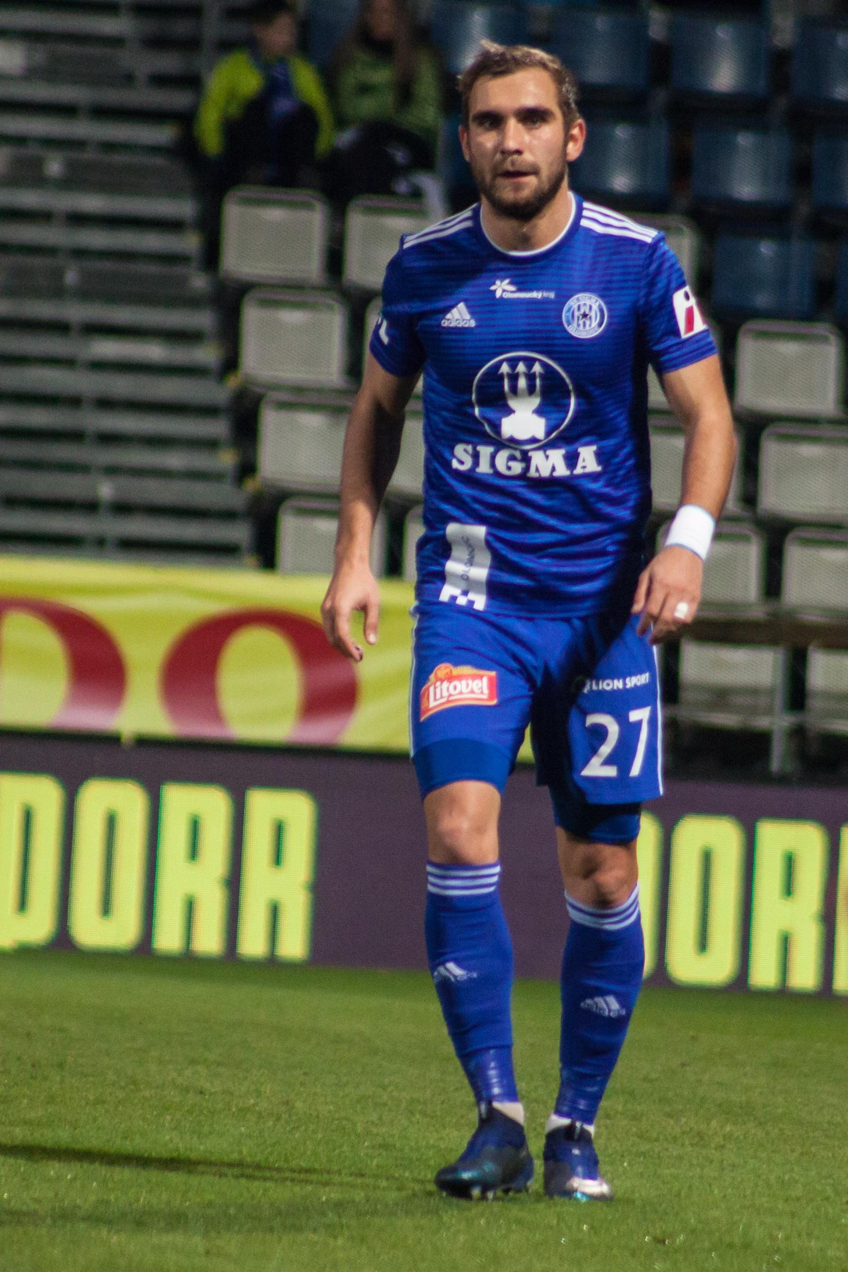 Martin Sladký At Czech cup (MOL Cup) match SK Sigma Olomouc-FC Fastav Zlín played on 15 November 2018